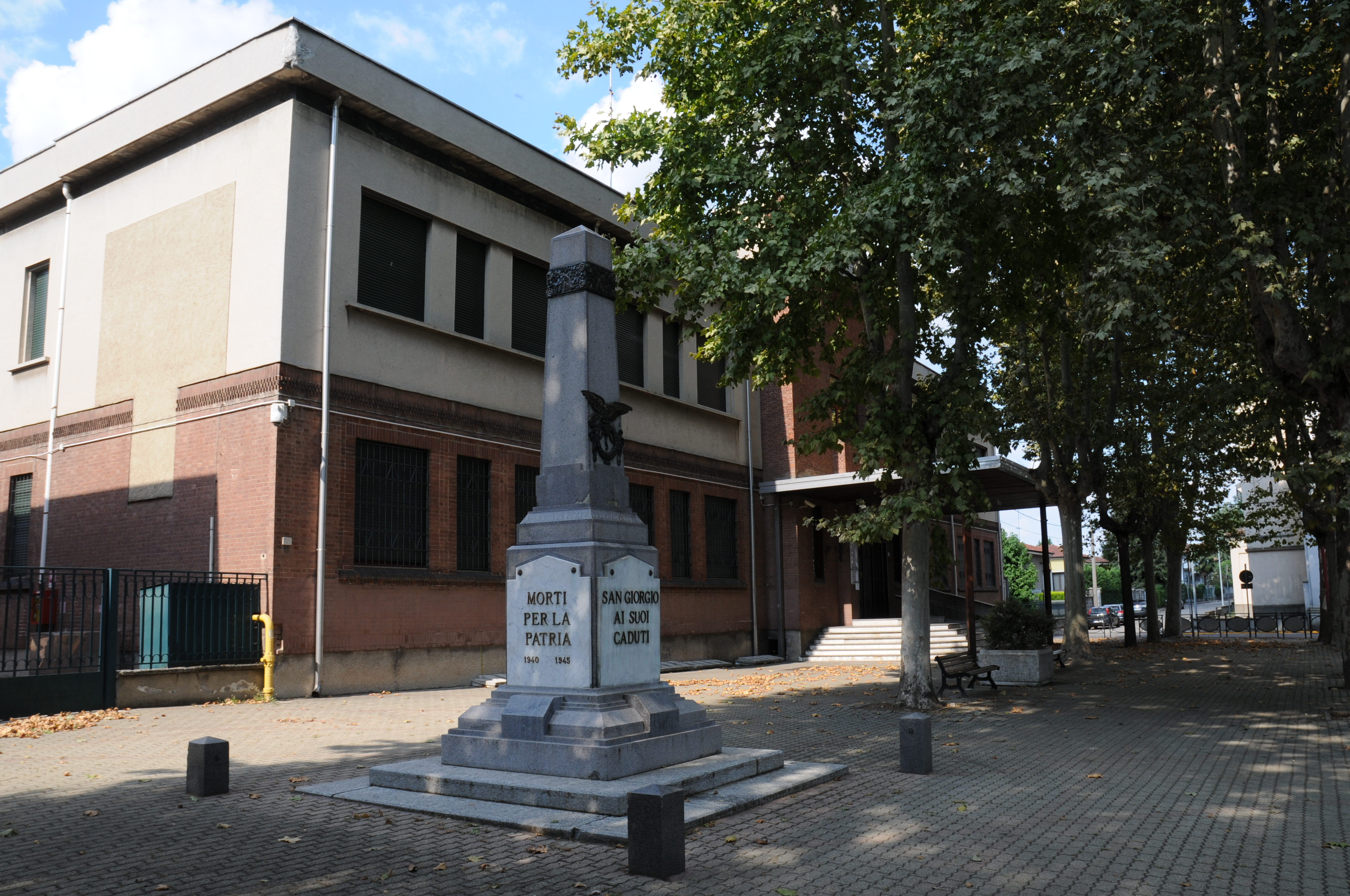 Municipal building in San Giorgio su Legnano (Italy)